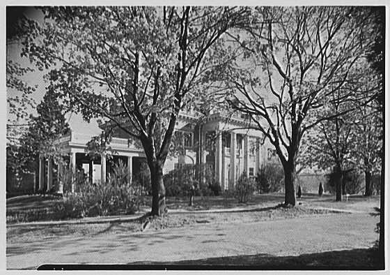 Bainbridge Naval Training Station, Bainbridge. Capt. Russell's house. Architects: Eggers & Higgins CALL NUMBER: LC-G612- 43540 [P&P] REPRODUCTION NUMBER: LC-G612-T-43540 (interpositive) MEDIUM: 1 negative : safety ; 5x7 in. FORMAT: Acetate negatives. CARD #: gsc1994019817/PP